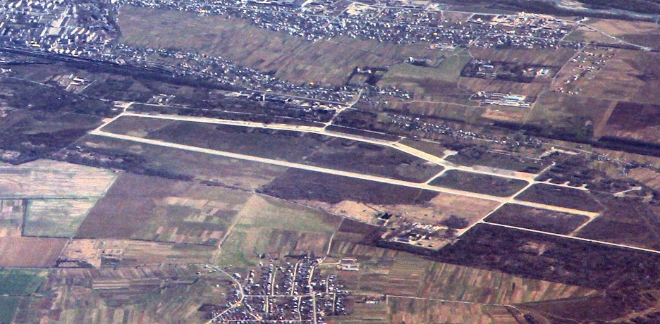 Stryi Air Base, Ukraine. Aerial view.